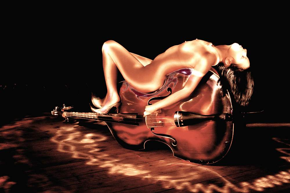 Painting with light - Paweł Matyka.